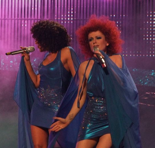 Lucy Diakowska of No Angels (Germany) performing Disappear at Eurovision Song Contest 2008 in Belgrade, Serbia, May 24, 2008.